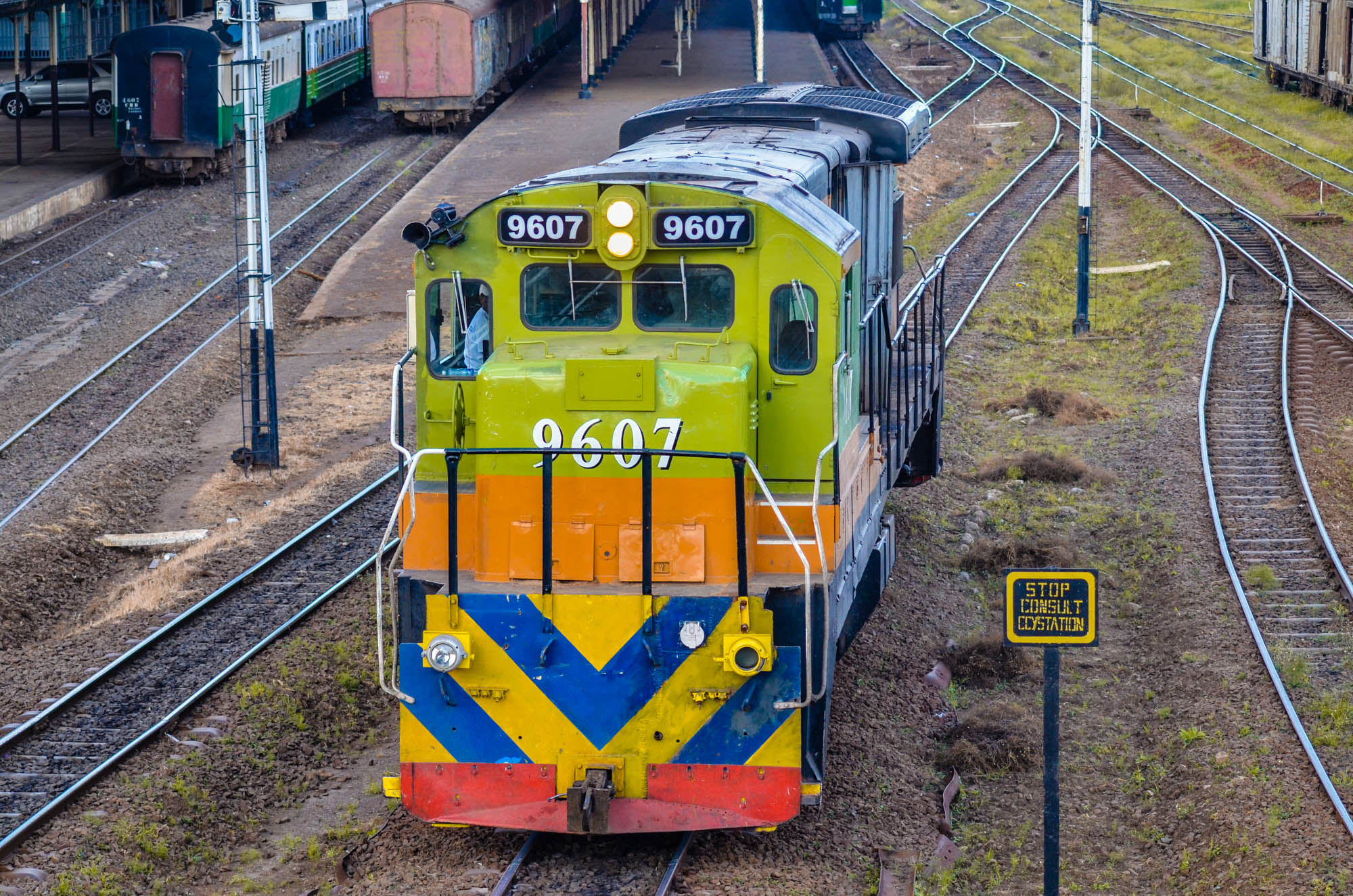 This types of engine has been now replaced by the newly established SGR locomotive that uses electric technology. This is an image with the theme "Africa on the Move or Transport" from: Kenya